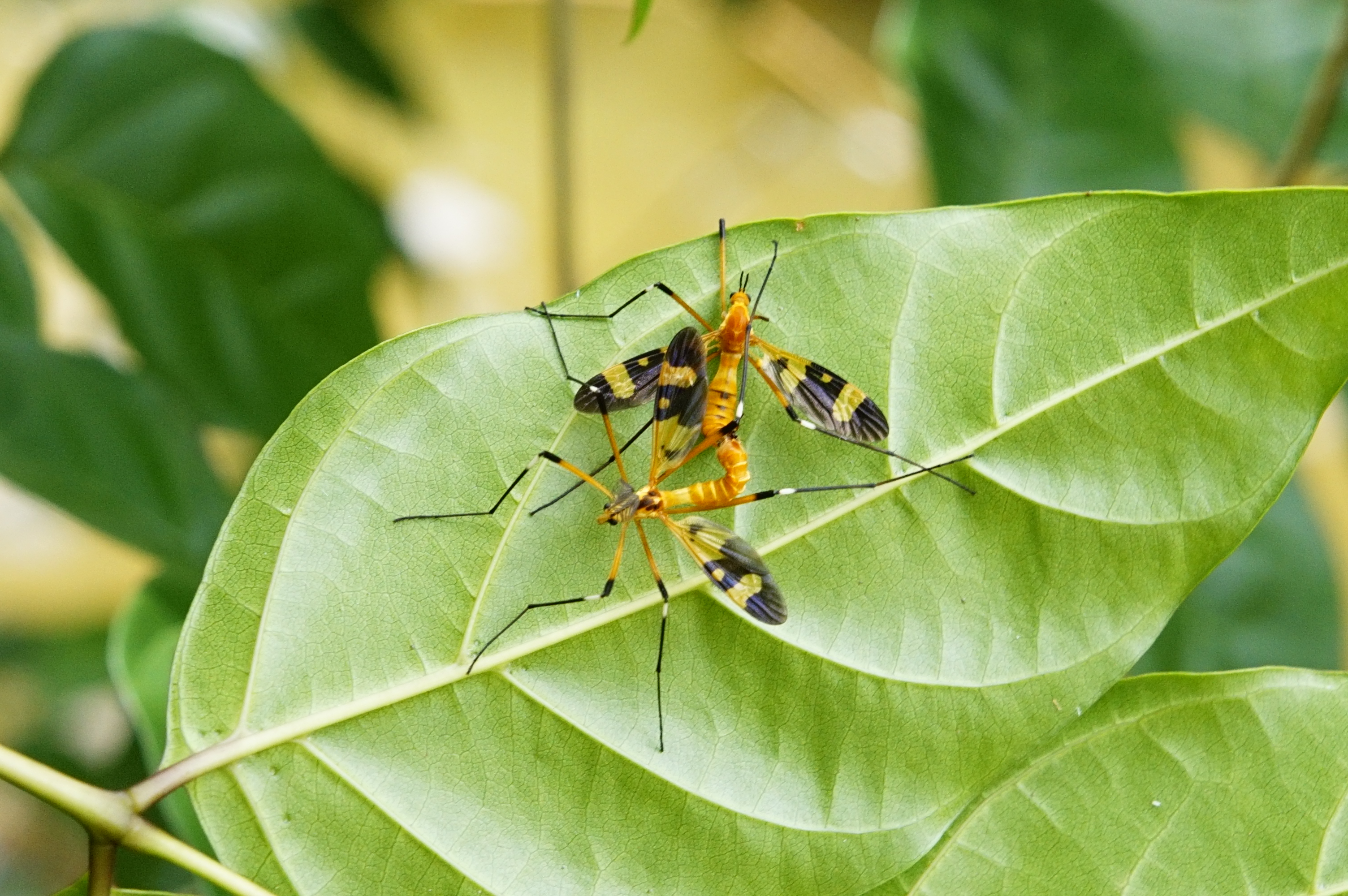 CHEMANCHERY